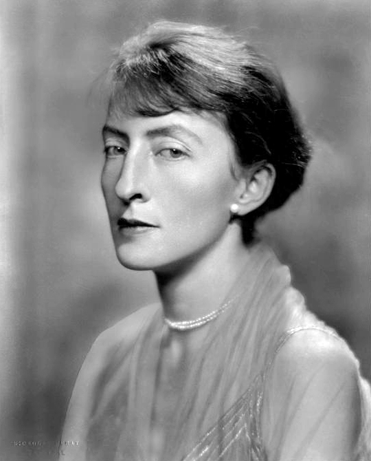 Portrait photograph of Clare Eames